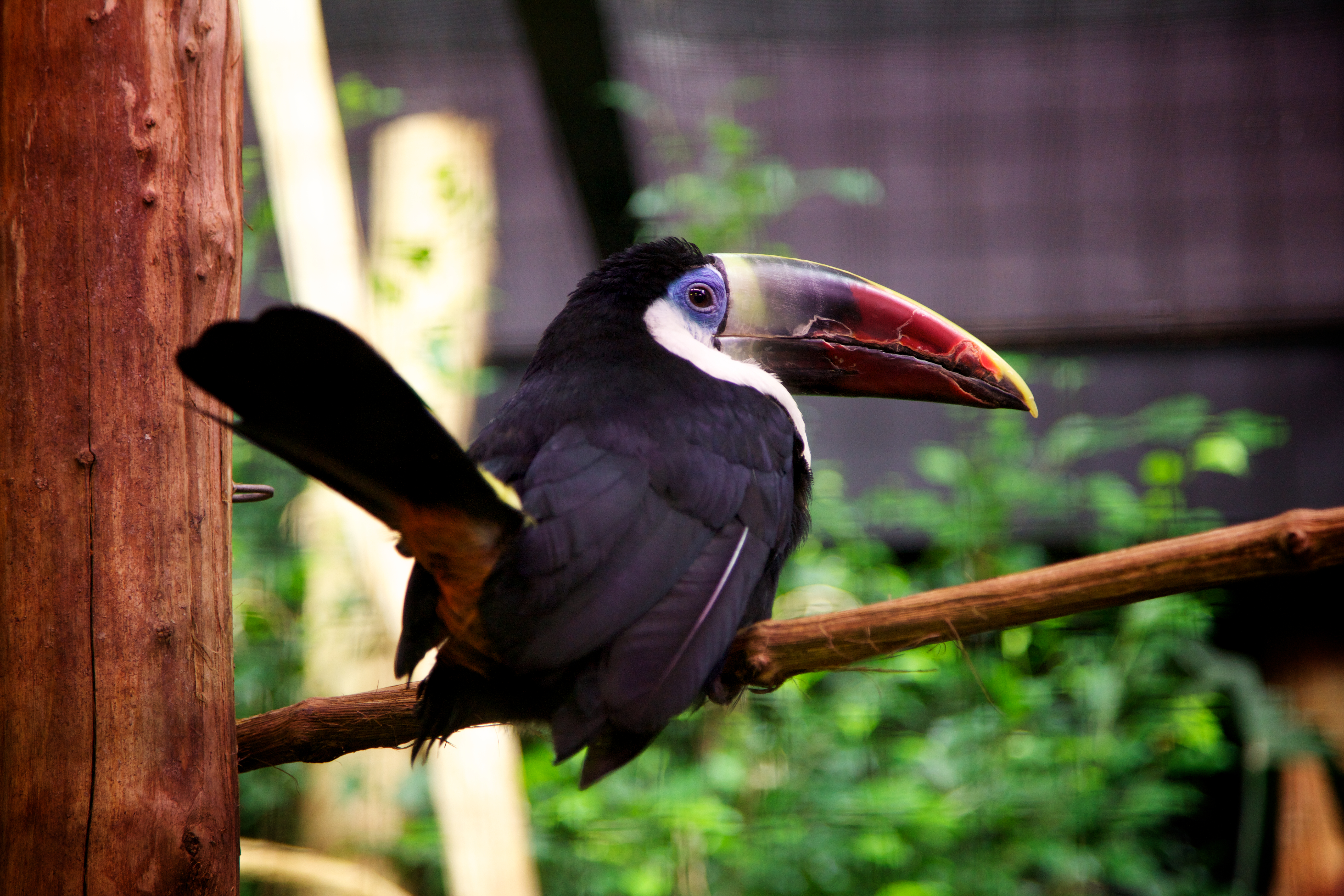 White-throated Toucan